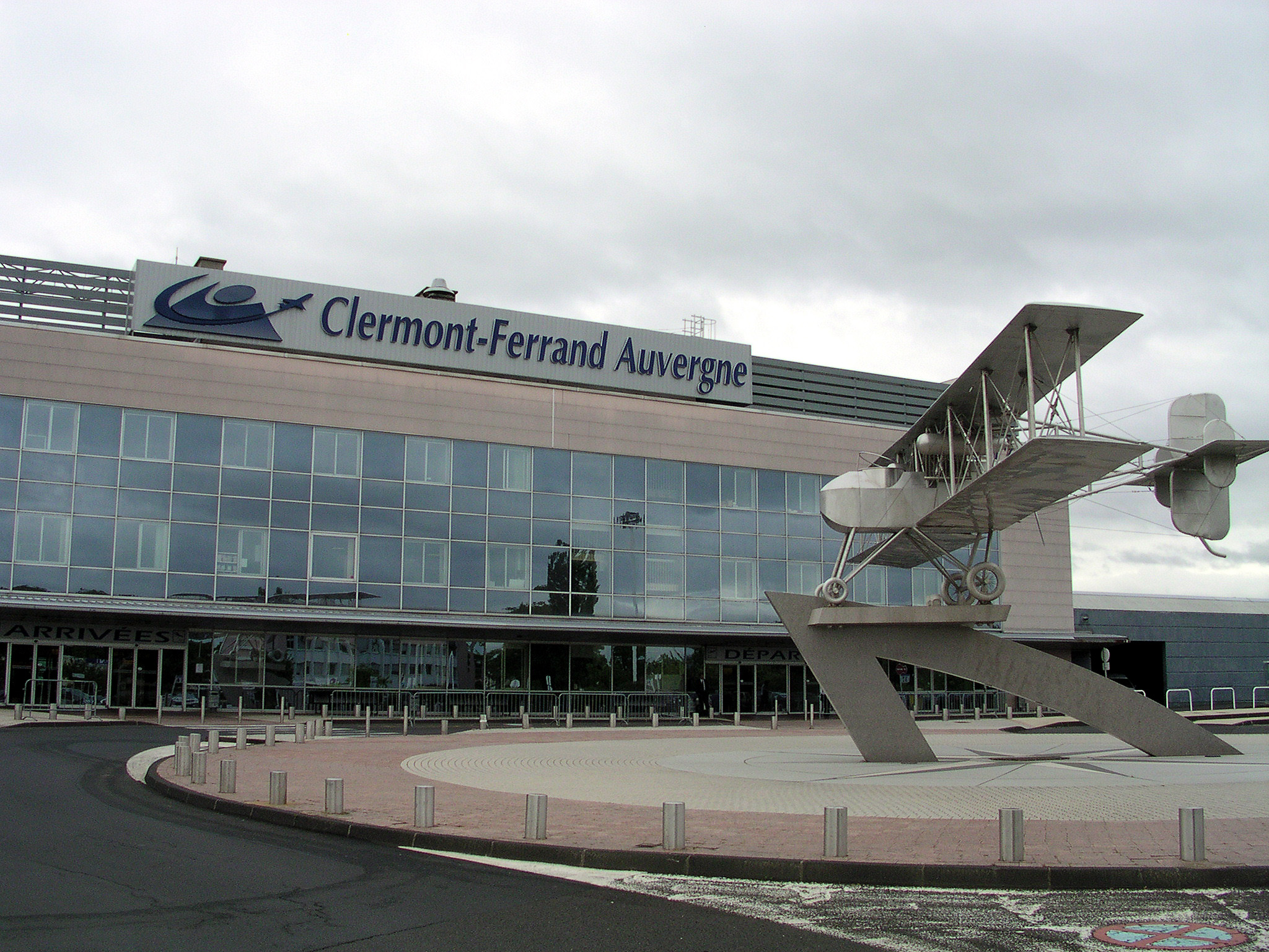 Clermont-Ferrand Auvergne airport (Auvergne, France) Auteur Romary mai/May 2006